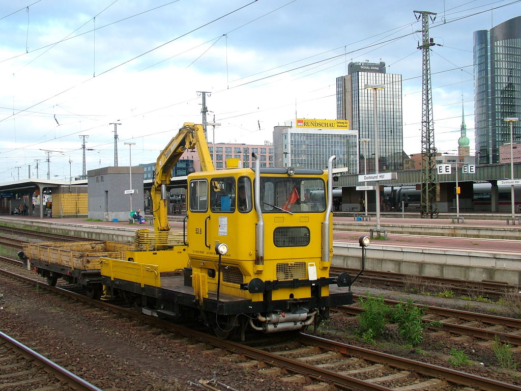 track maintenance vehicle Klv 53 in Dortmund Central Station